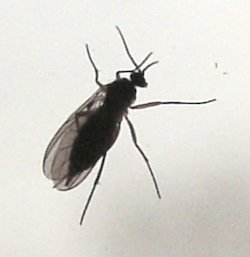 Sciara sp. imago, from Cologne, Germany. Animal is roughly 2mm long.